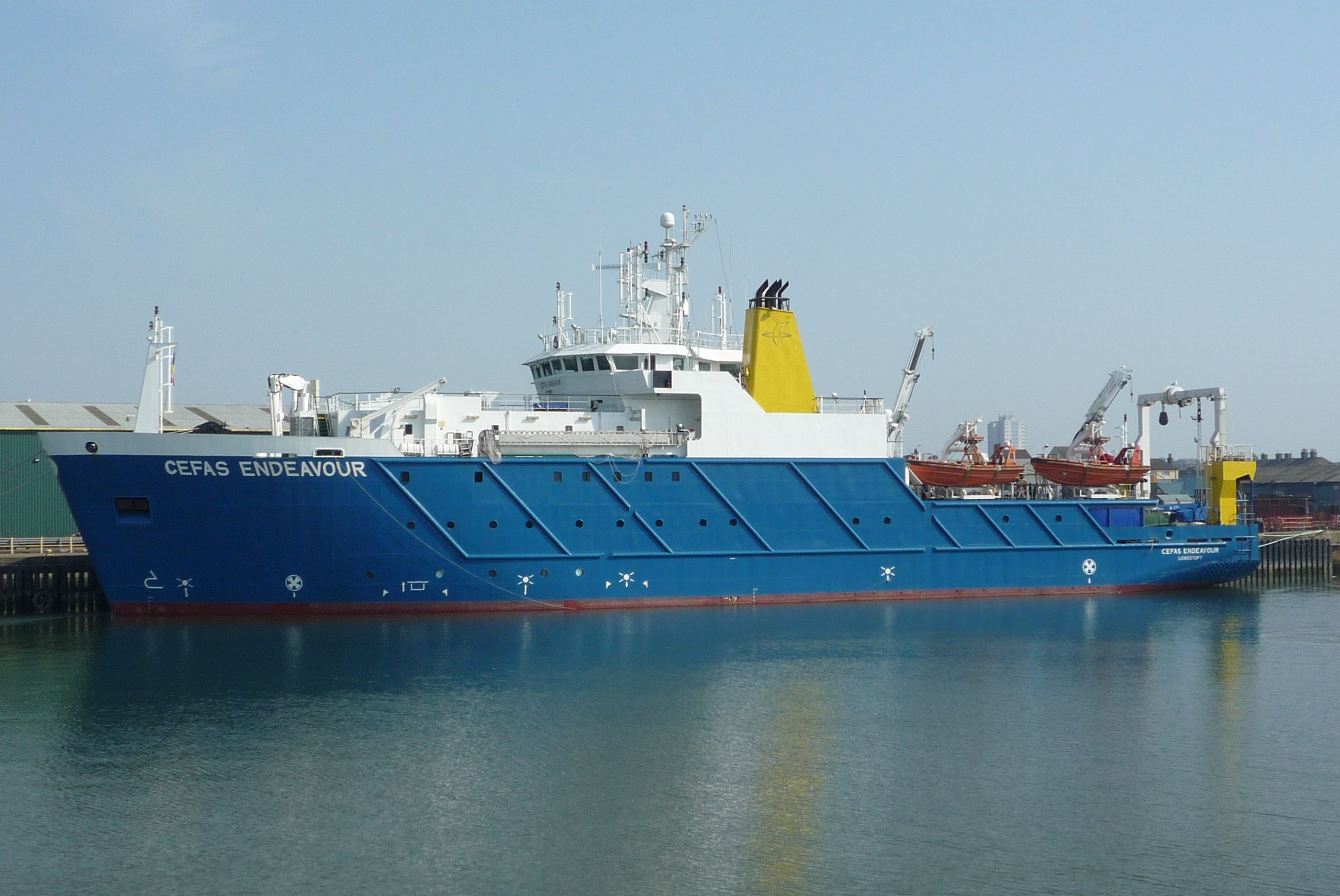 RV Cefas Endeavour seen in the Inner Harbour, Lowestoft, Suffolk, England.